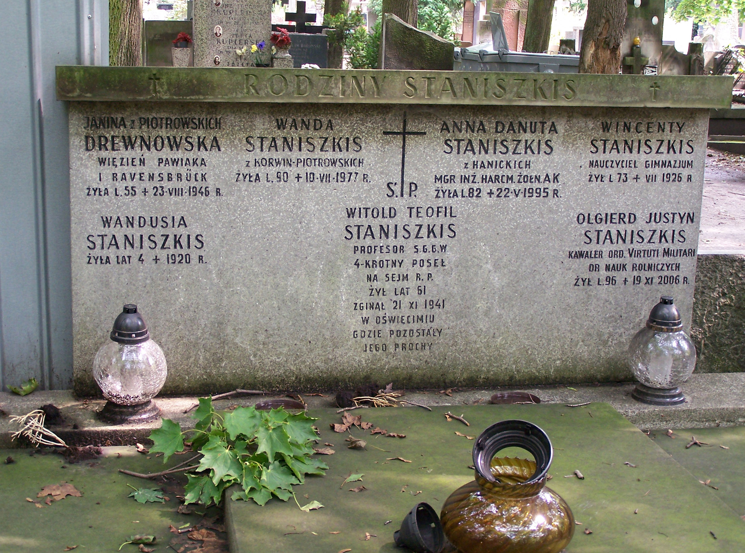 Grave of politician Witold Teofil Staniszkis at Powązki Cemetery in Warsaw, Poland